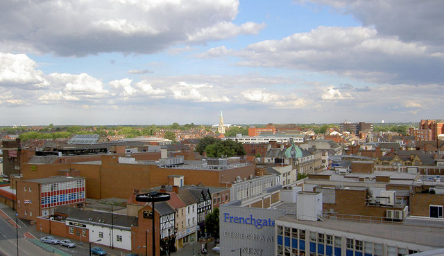 High Street and Frenchgate shopping centre. Formerly the Arndale centre.